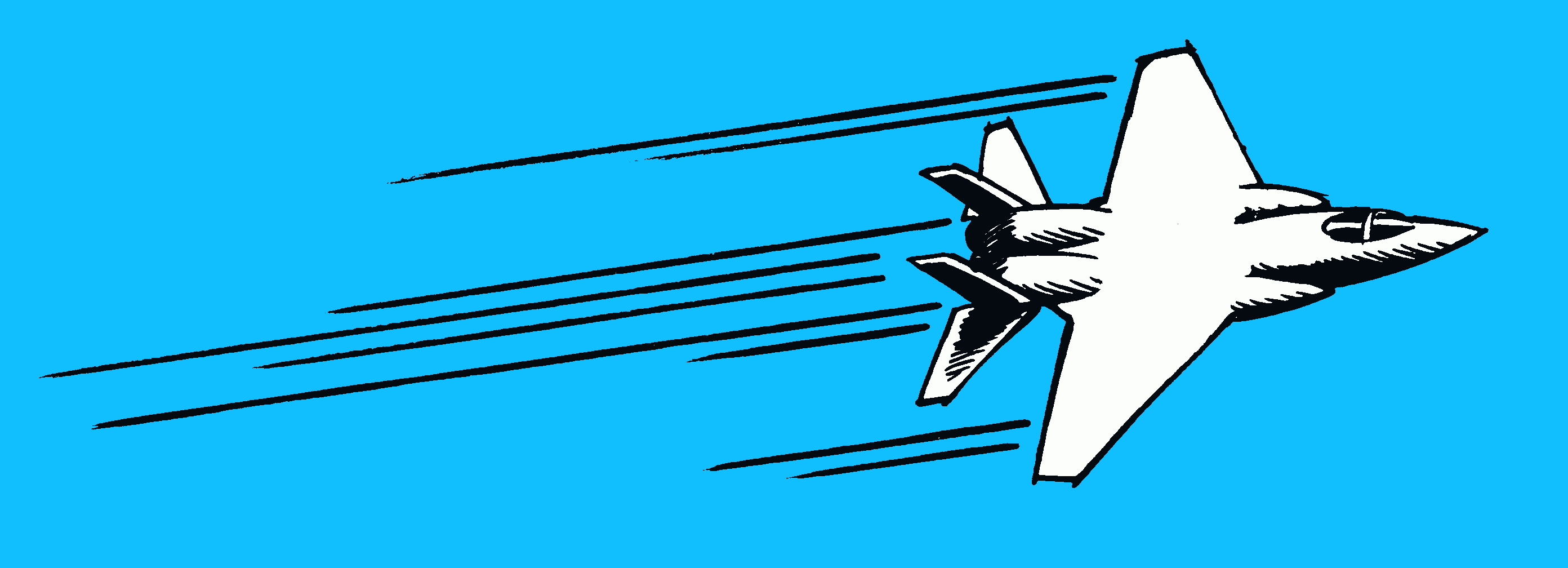 Drawing of a fast aeroplane with motion lines.